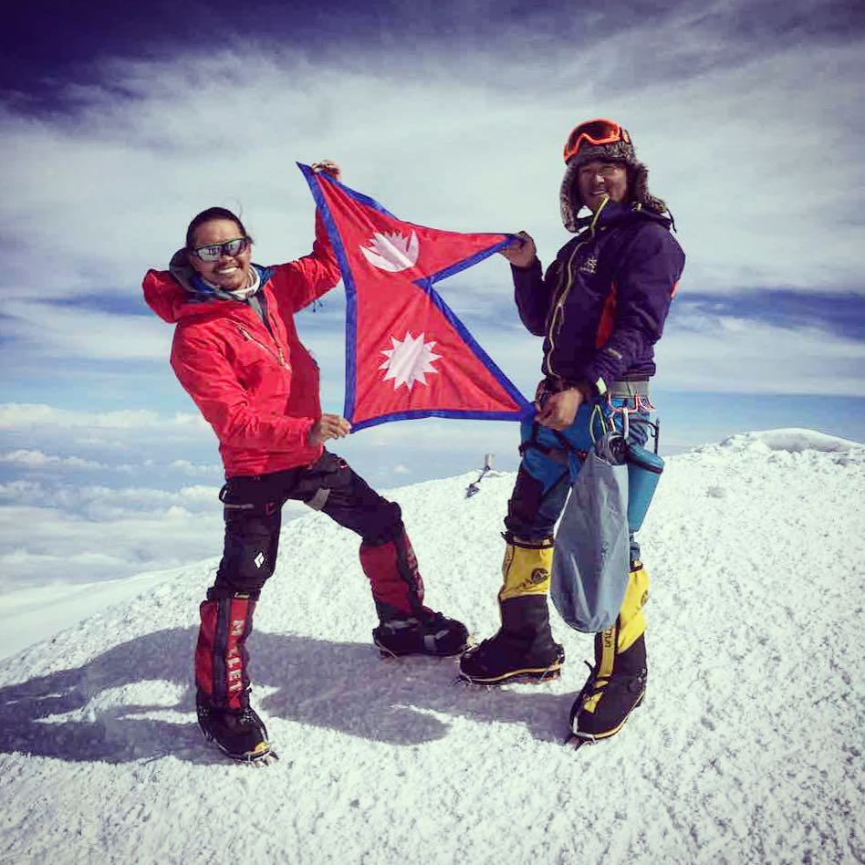 Mt.Denali